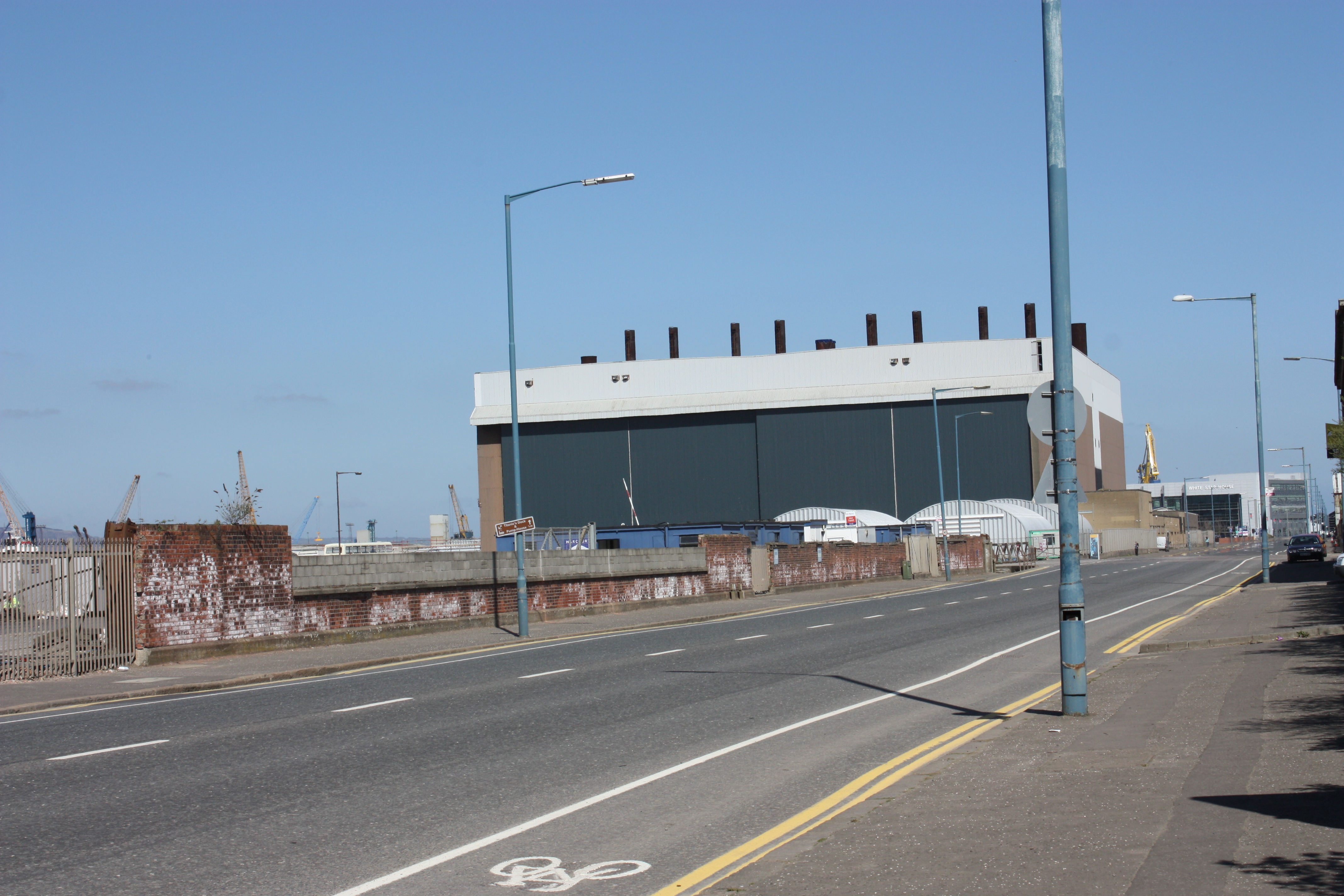 Paint Hall film studio (formerly Paint Hall for Harland and Wolff), Queen's Road, Titanic Quarter, Belfast, Northern Ireland, April 2010